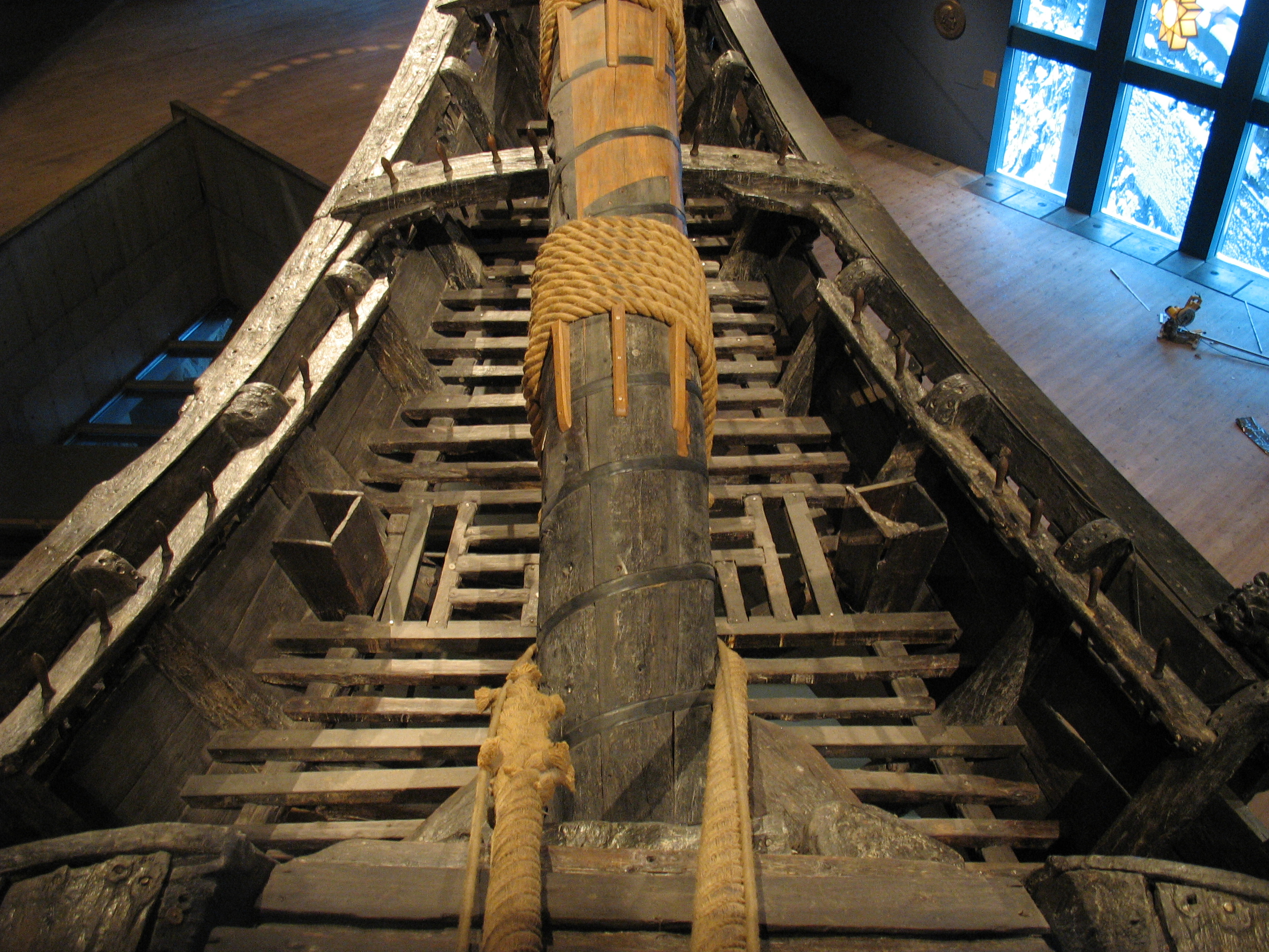 View of the toilets on the beakhead of the warship Vasa, displayed in the Vasa Museum in Stockholm, Sweden. Picture taken from the weather deck of the ship. The right one still has remains of the seat.